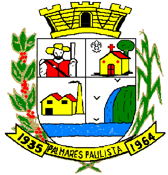 Coat of Arms of the city of Palmares Paulista, São Paulo state, Brazil. Based on the city oficial website. Emerson This work is in the public domain in Brazil for one of the following reasons: It is a work published or commissioned by a Brazilian government (federal, state, or municipal) prior to 1983.(Law 3071/1916, art. 662; Law 5988/1973, art. 46; Law 9610/1998, art. 115) It is the text of a treaty, convention, law, decree, regulation, judicial decision, or other official enactment.(Law 9610/1998, art. 8)